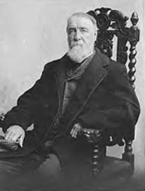 . Explanation for public domain: copyright expired (Chadwick lived until 1908).